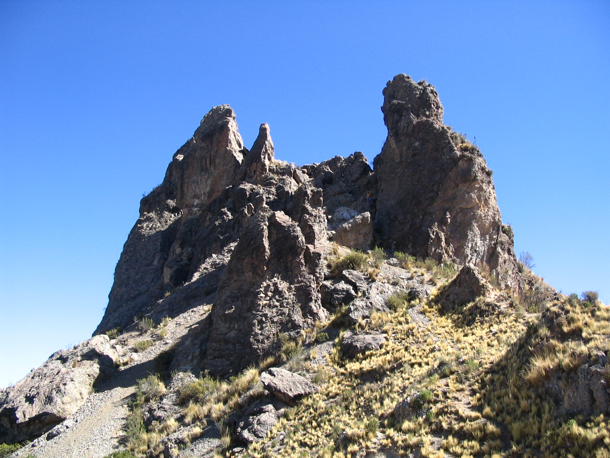 Photo of the muela del diablo near of La Paz in Bolivia